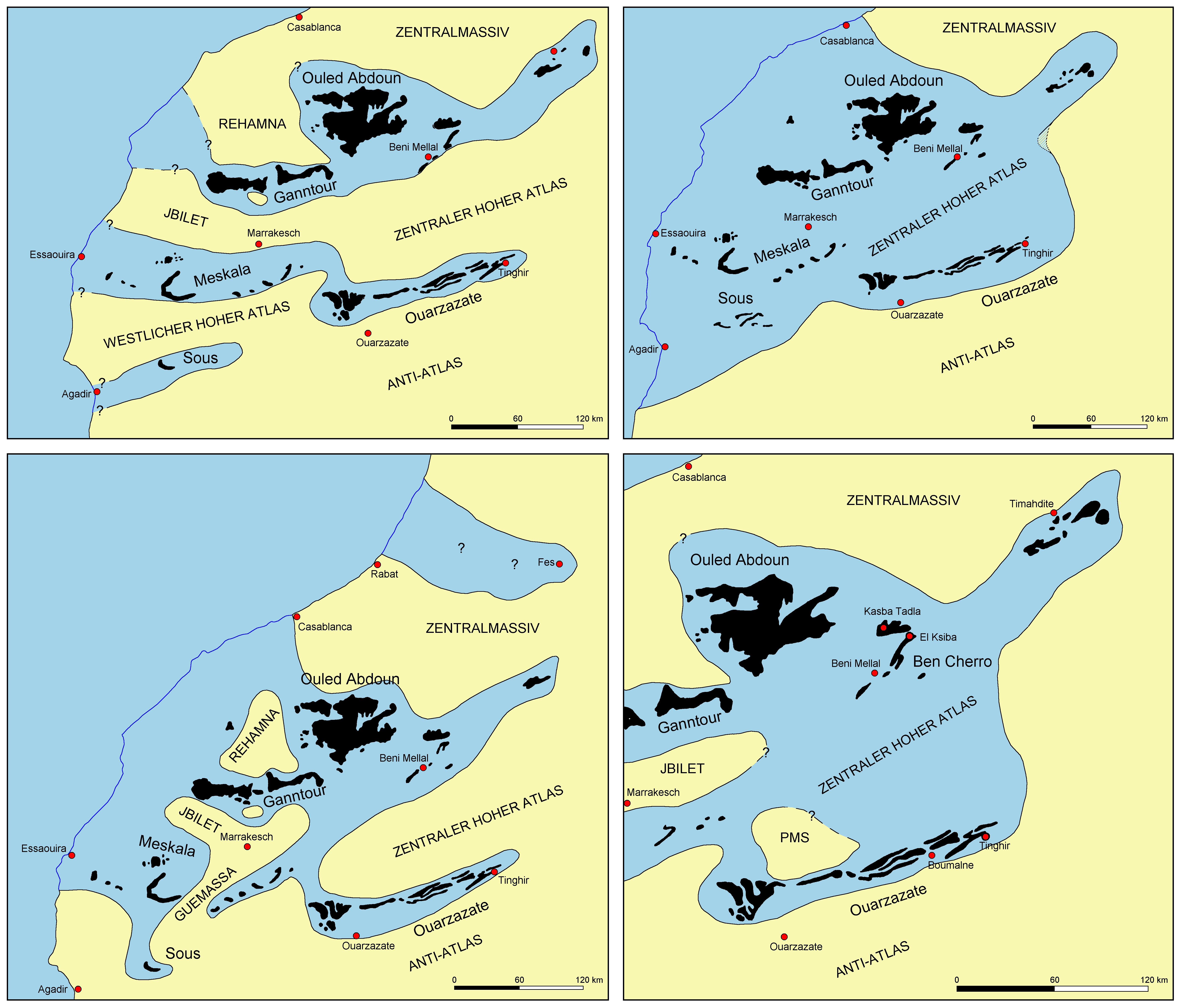 4 Reconstructions of the "Phosphate sea" of Morocco during the Cretaceous-Paleogene, redrawn after: Hans-Georg Herbig: Das Paläogen am Südrand des zentralen Hohen Atlas und im Mittleren Atlas Marokkos. Stratigraphie, Fazies, Paläogeographie und Paläotektonik. Berliner Geowissenschaftliche Abhandlungen Reihe A 135, 1991, pp. 1–289 (fig. 4) Top left: after Boujo 1978, top right: after Trappe 1991, bottom left: after Salvan 1986, bottom right: after Herbig 1986; the reconstruction by Trappe 1991 was corrected after: André Charrière, Hamid Haddoumi, Pierre-Olivier Mojon, Jacky Ferrière, Daniel Cuche and Lamia Zili: Mise en évidence par charophytes et ostracodes de l’âge Paléocène des dépôts discordants sur les rides anticlinales de la région d’Imilchil (Haut Atlas, Maroc): conséquences paléogéographiques et structurales. Comptes Rendus Palevol 8, 2009, pp. 9–19 (fig. 5)